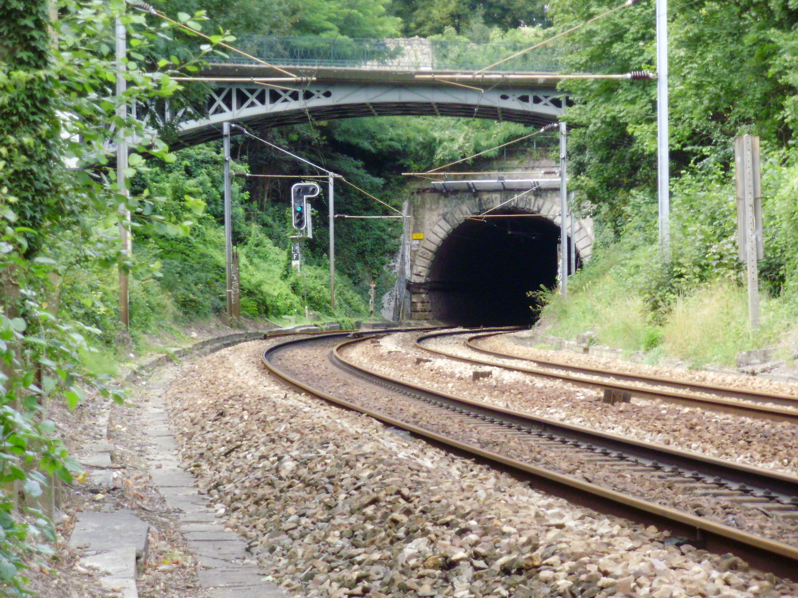 Louveciennes tunnel, Yvelines, France, on the Saint-Cloud - Saint-Nom-la-Bretèche line between the stations of Louveciennes and Marly-le-Roi (SE entrance, seen from the level crossing for pedestrians only (PN 6) of the rue de la Paix)